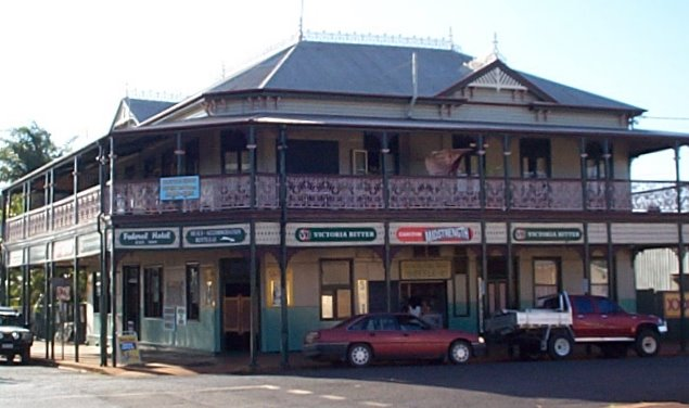 Taken by Michael Gardner 2006